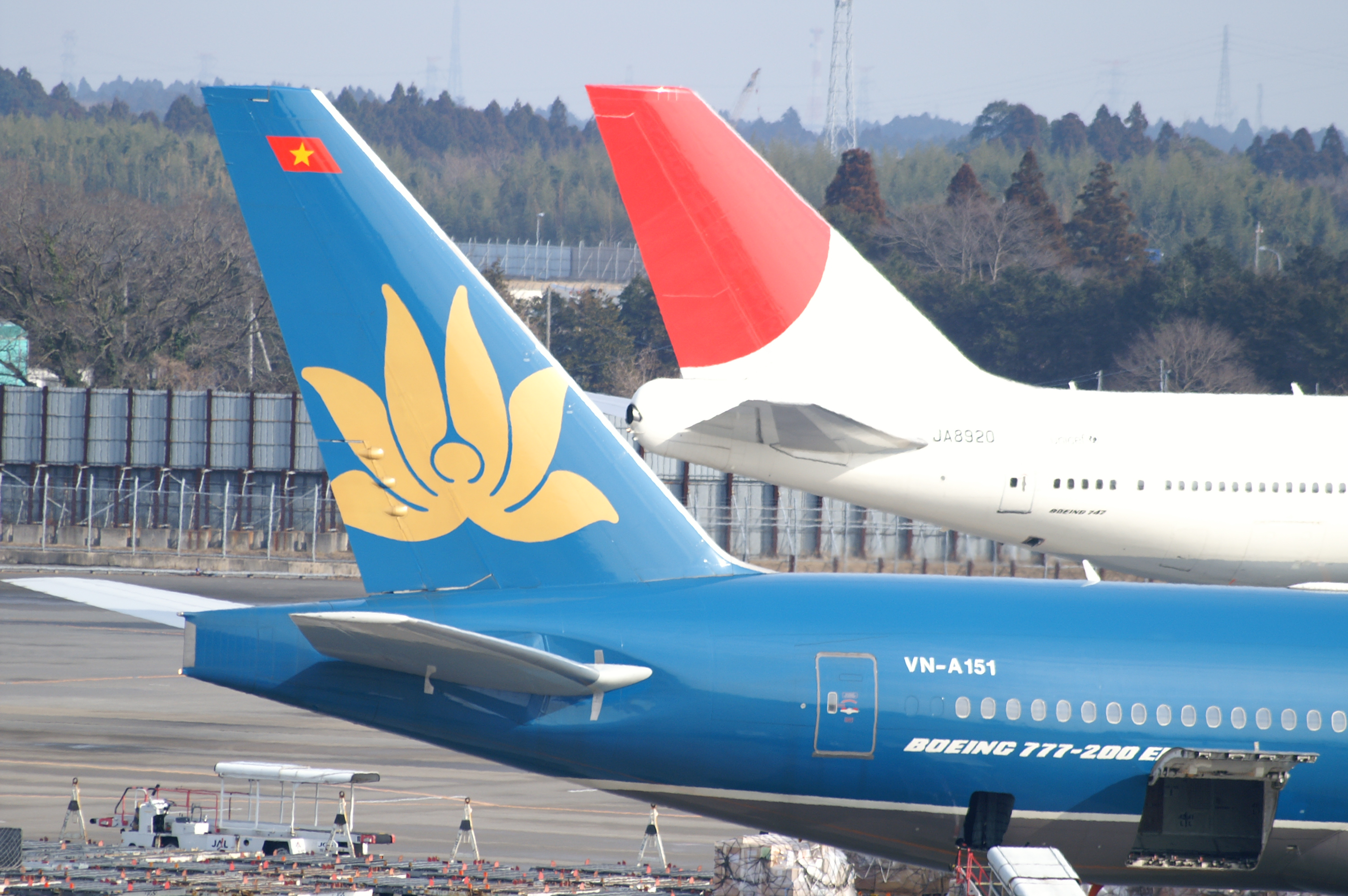 Vietnam Airlines currently flies to Narita through a codeshare agreement with Japan Airlines. The two carriers are seen here. (2007/01/28 Narita International Airport, Chiba, JAPAN)